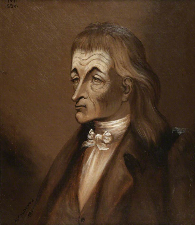 Iolo Morganwg (Edward Williams) (1747–1826)